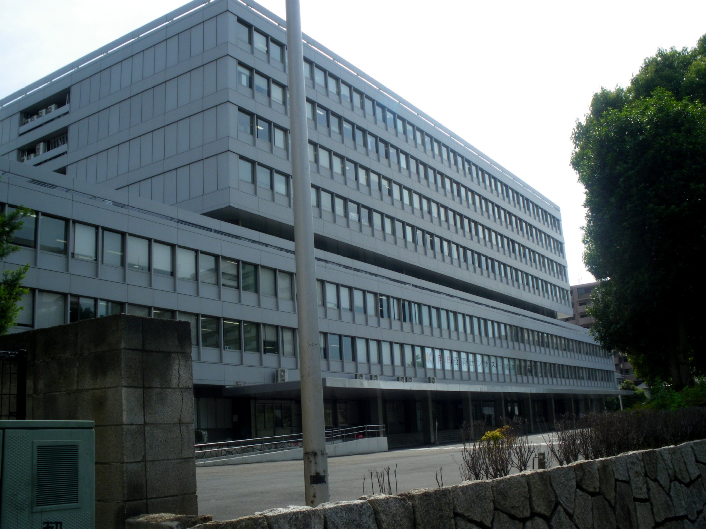 Statistics Bureau of Ministry of Internal Affairs and Communications(Wakamatsucho,Shinjuku-ku,Tokyo)